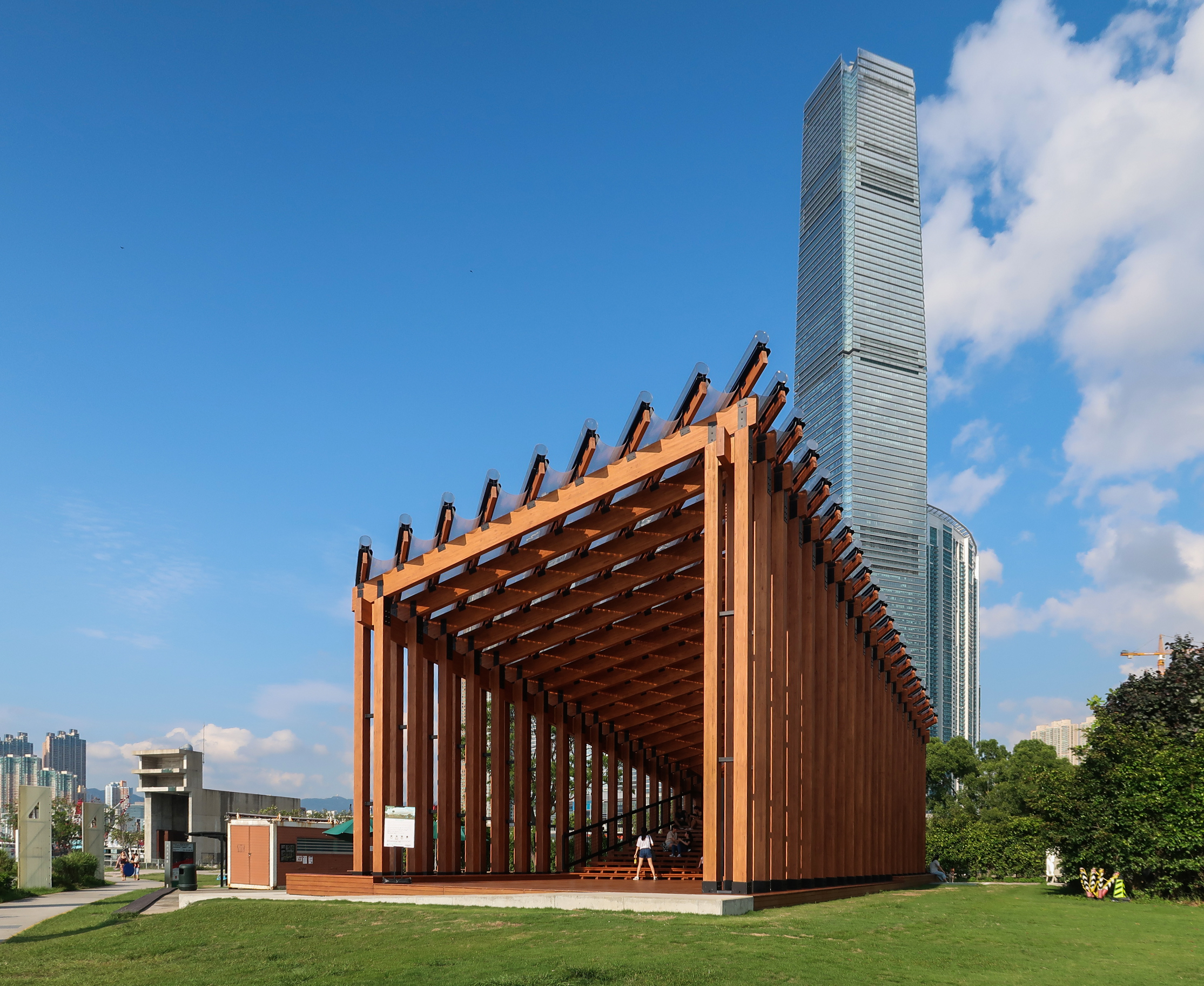 WKCD Growing Up Pavilion